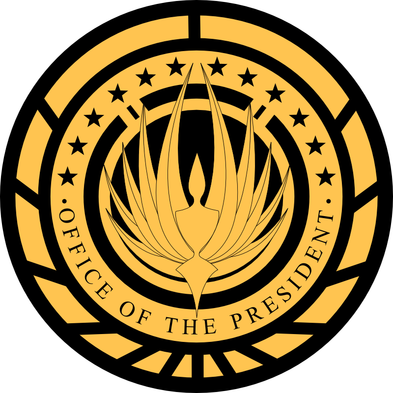 The Seal of the Office of the President of the Twelve Colonies